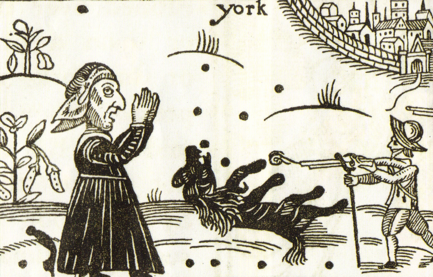 A contemporary woodcut of the death of Boye, Prince Rupert's dog, at the Battle of Marston Moor. Boye is shot by a musketeer as a witch looks on.